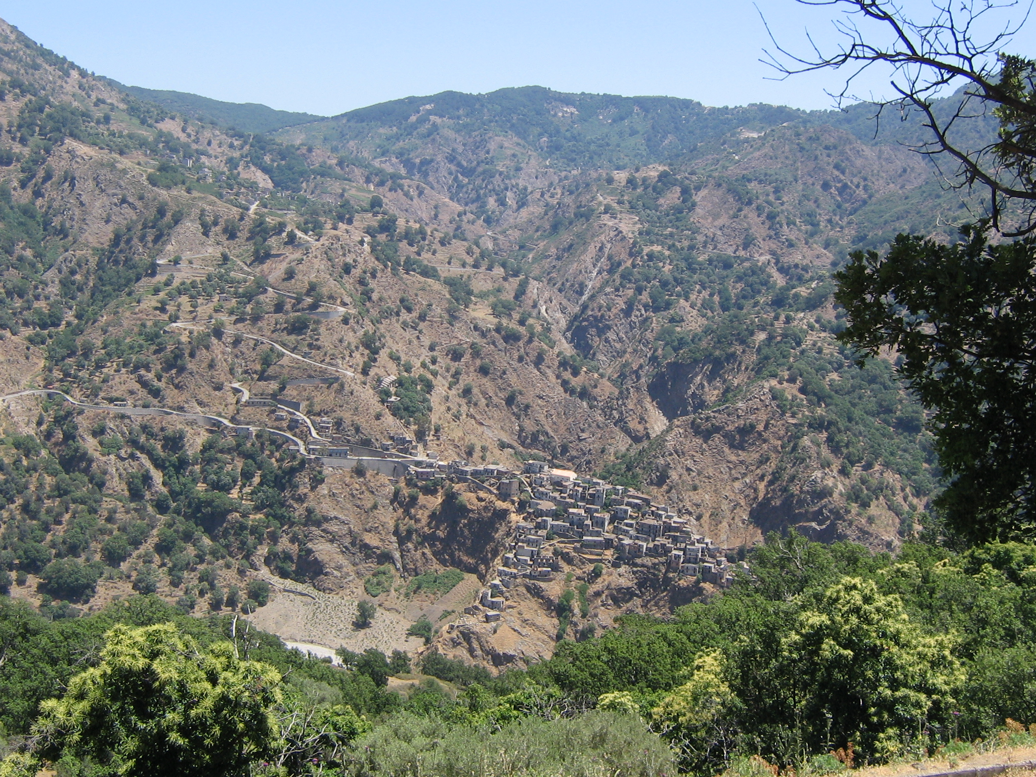 Roghudi (Aspromonte)